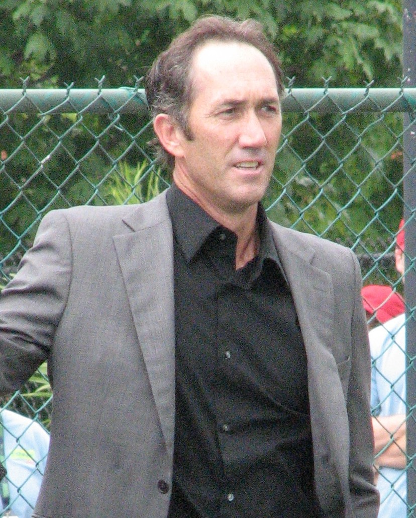 Former Australian player Darren Cahill during the 2009 Indianapolis Tennis Championships